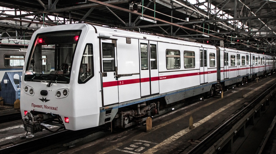 Named electric subway train «Hello, Moscow!» type 81-740/741 «Rusich» in Krasnaya Presnya depot